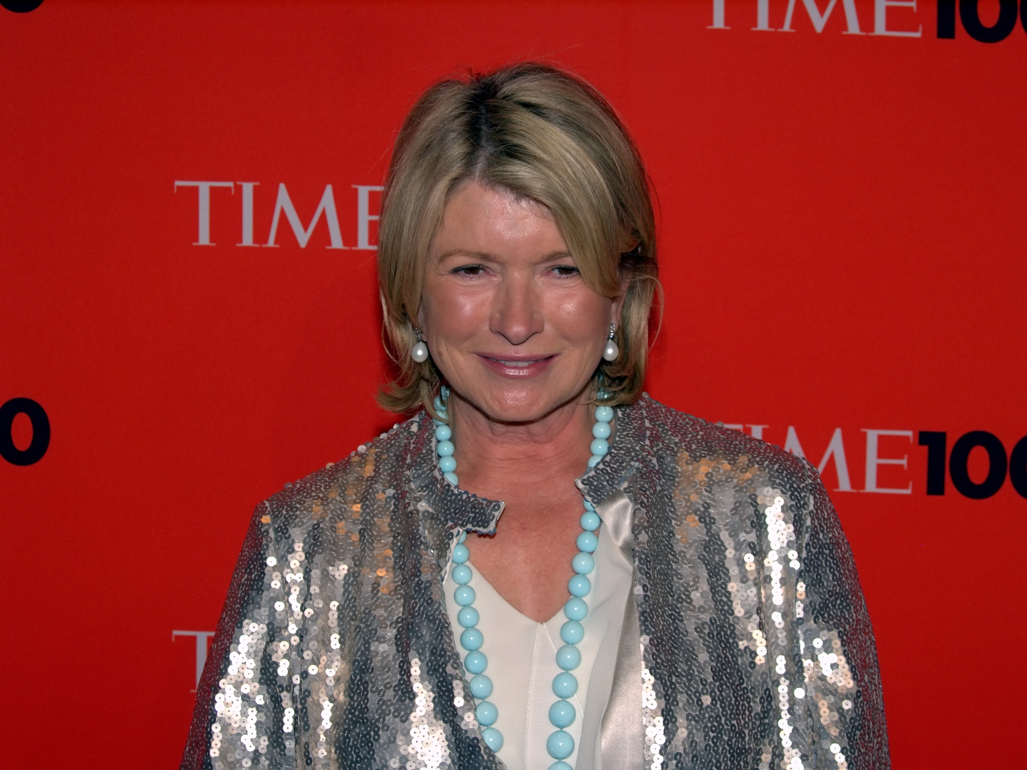 Martha Stewart at the 2010 Time 100.